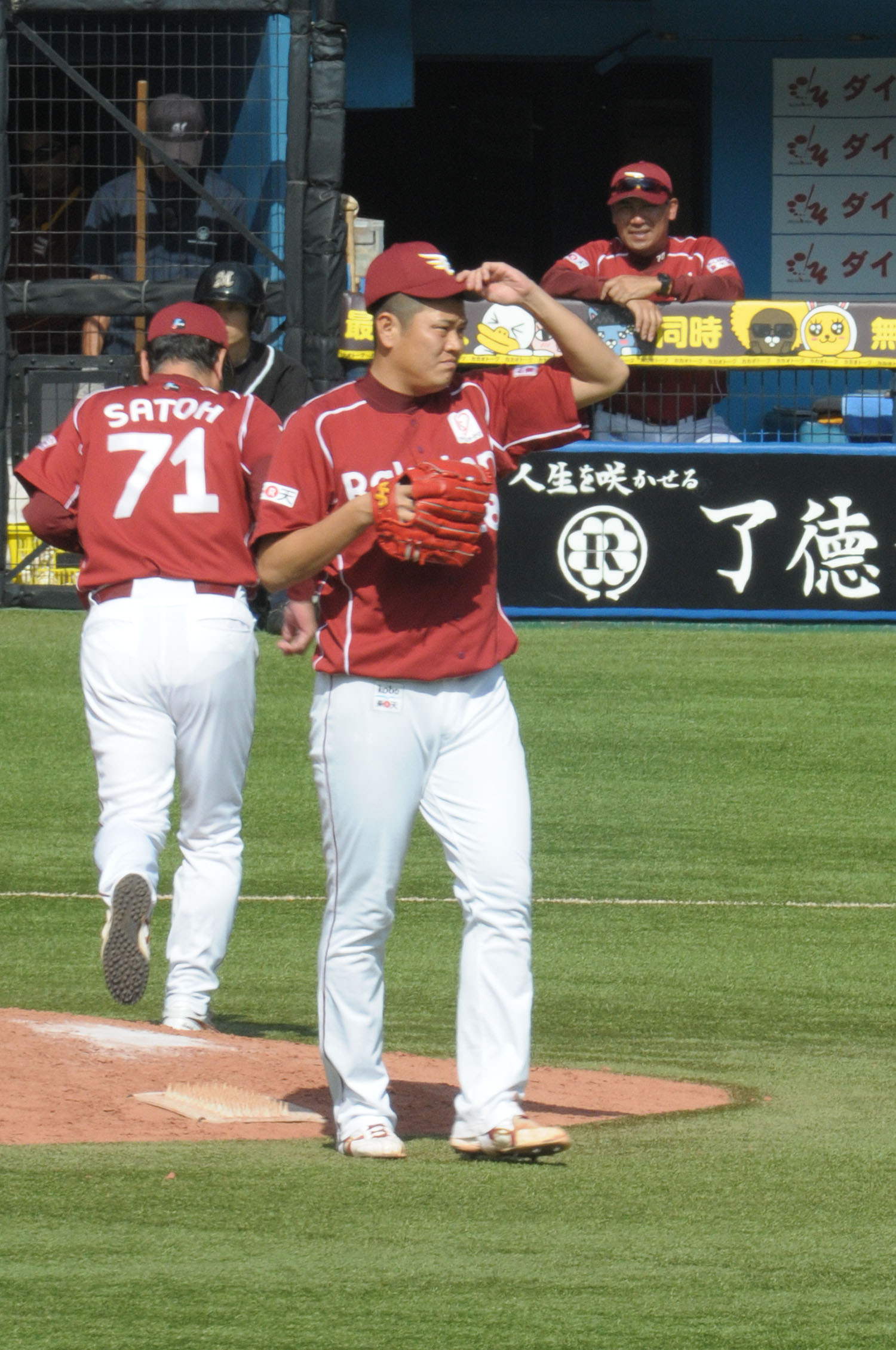 Hiroshi Katayama, pitcher of the Tohoku Rakuten Golden Eagles, at Chiba Marine Stadium.